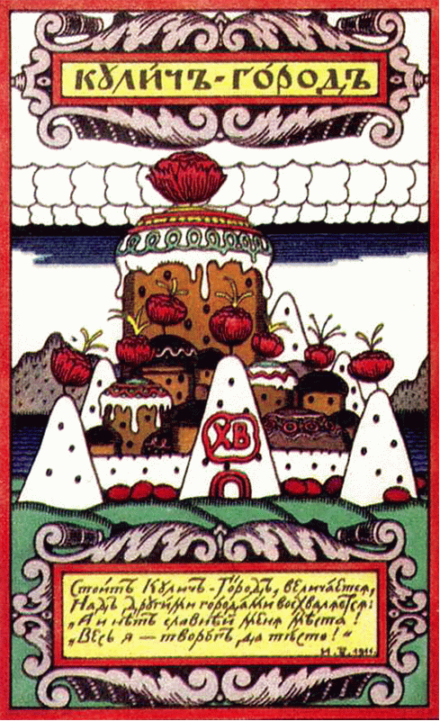 An illustration of white cheese paskhas around kulich. It uses old Russian language orthography that can be translated to a modern rendition along the lines of "Kulich-city is standing, glorifying itself; Lauding itself over other cities; There is no other place better than me!; For I am all quark and dough! The X and the B on the cheese paska are for "Xpucmoc Bockpec" (Christ Arose)